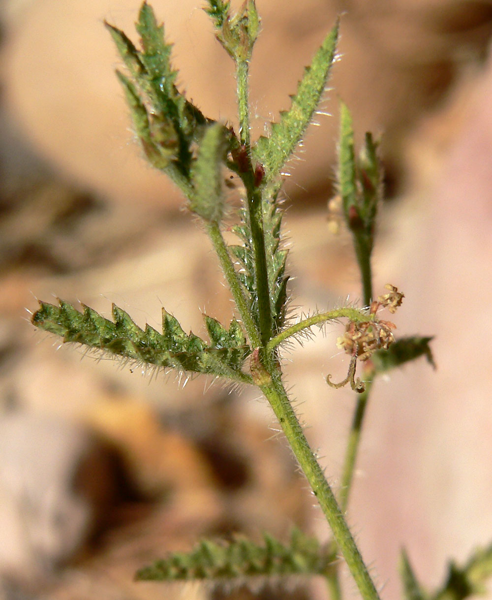 Tragia ramosa in Red Rock Canyon, southern Nevada